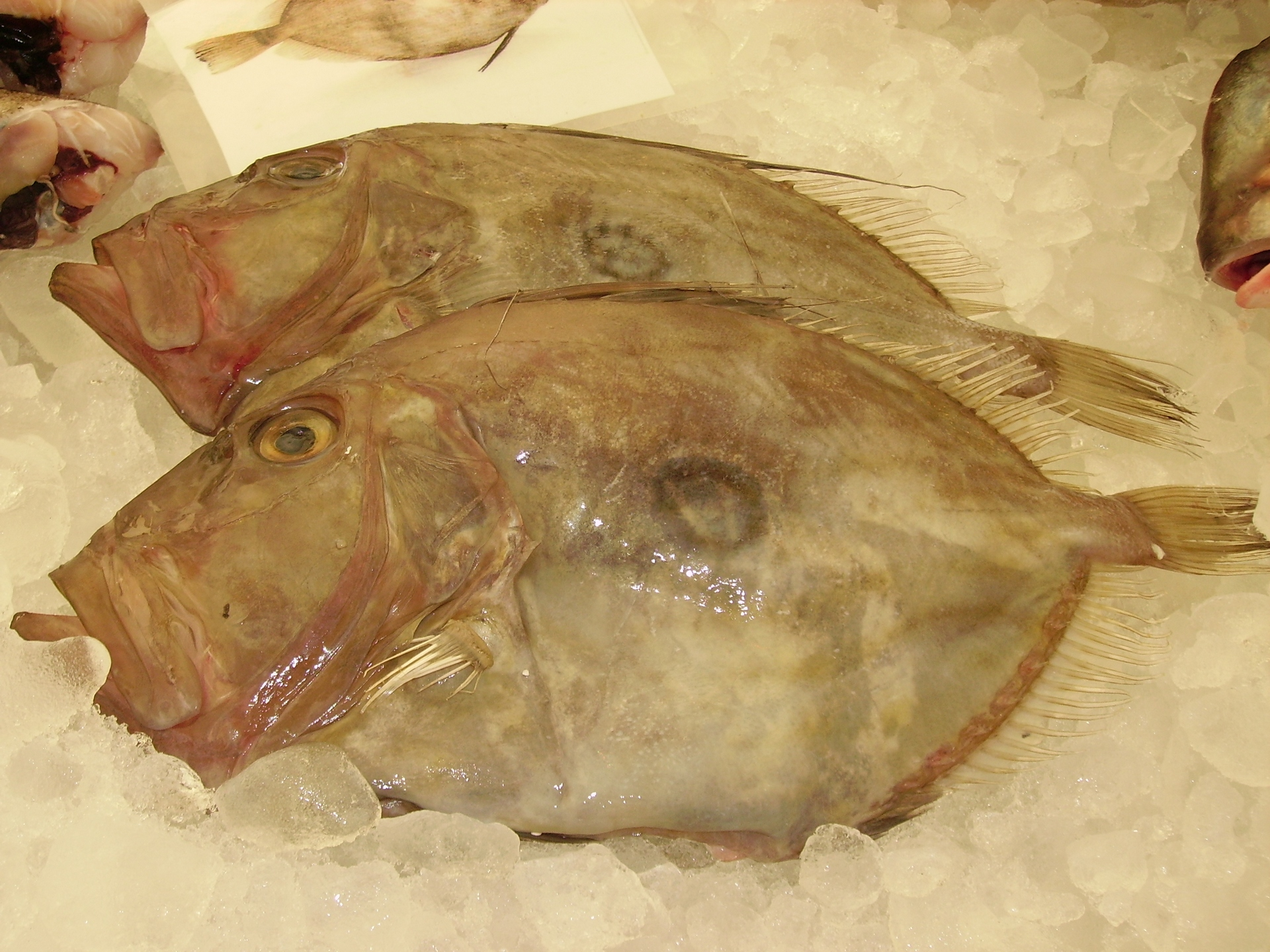 A John Dory (Zeus faber)